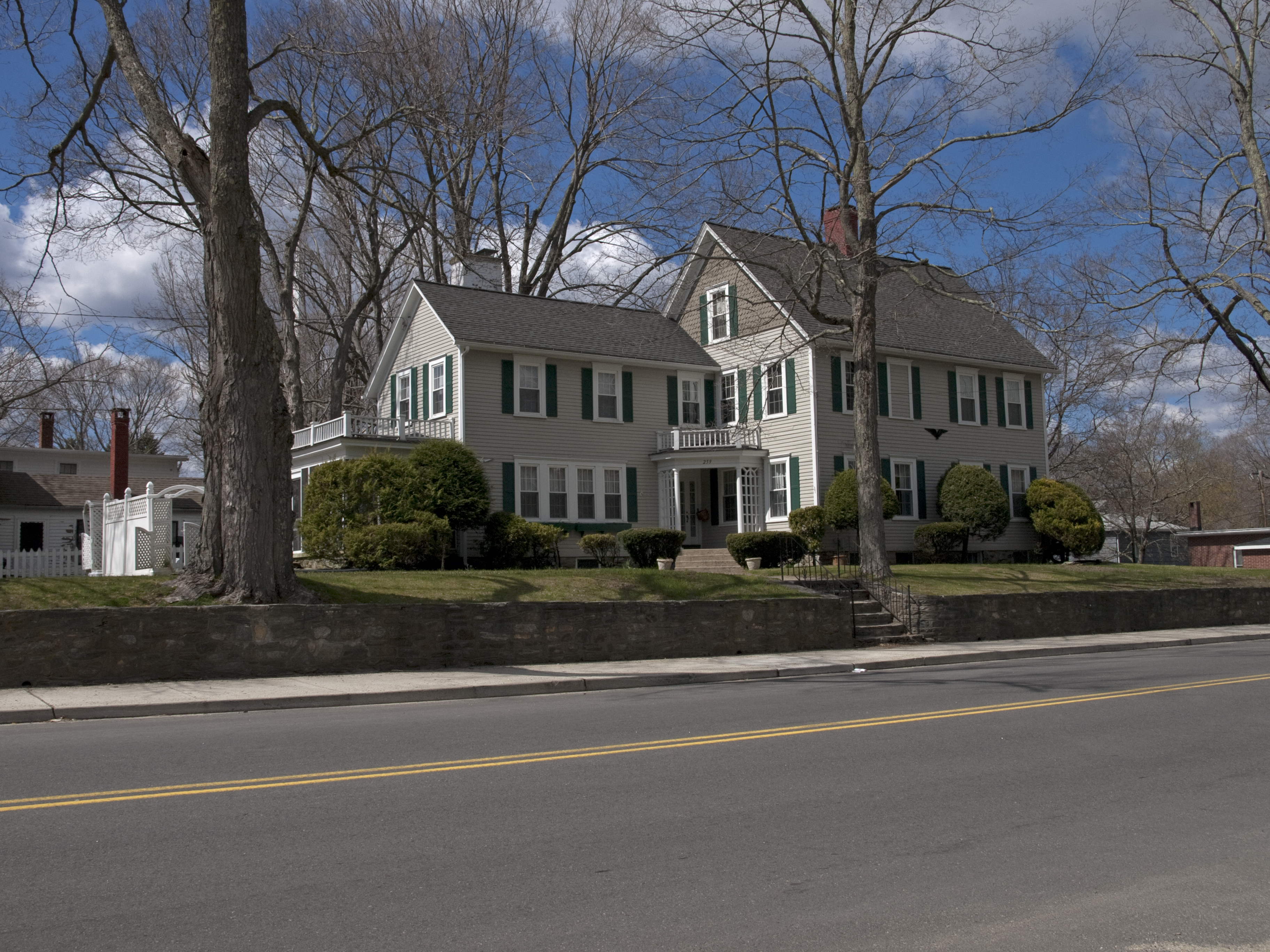 259 Borad Street, Killingly, Connecticut